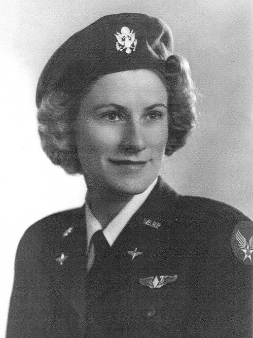 Iris C. Cummings Critchell in WASP (Women Airforce Service Pilots) uniform